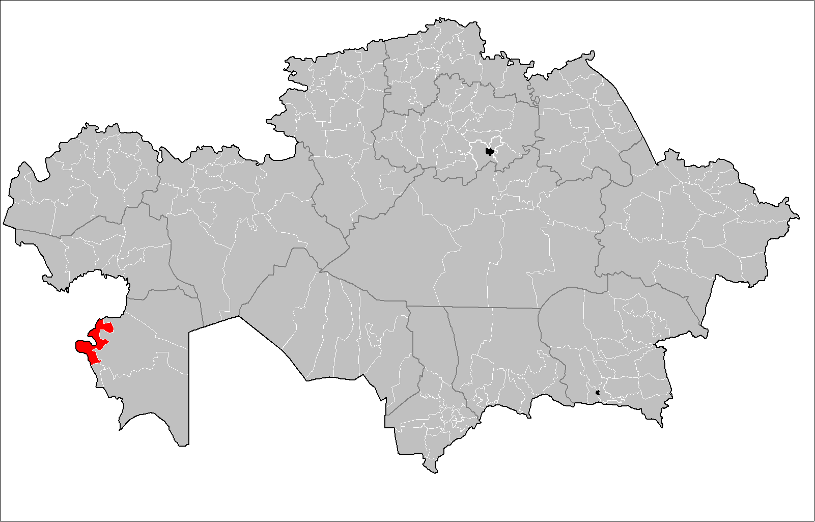 Map of the rayons of Kazakhstan. Created by Rarelibra 16:49, 3 August 2007 (UTC) for public domain use, using MapInfo Professional v8.5 and various mapping resources.